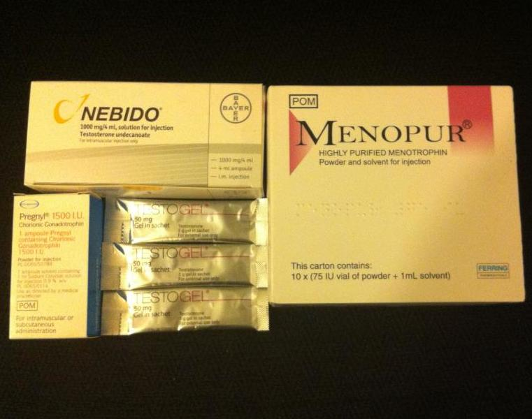 Possible treatment methods for males with Kallmann syndrome or CHH. Nebido - Testosterone undecanoate injection Pregnyl - Human chorionic gonadotropin injection (hCG) Testogel - Daily testosterone gel Menopur - Menotropin (hMG)